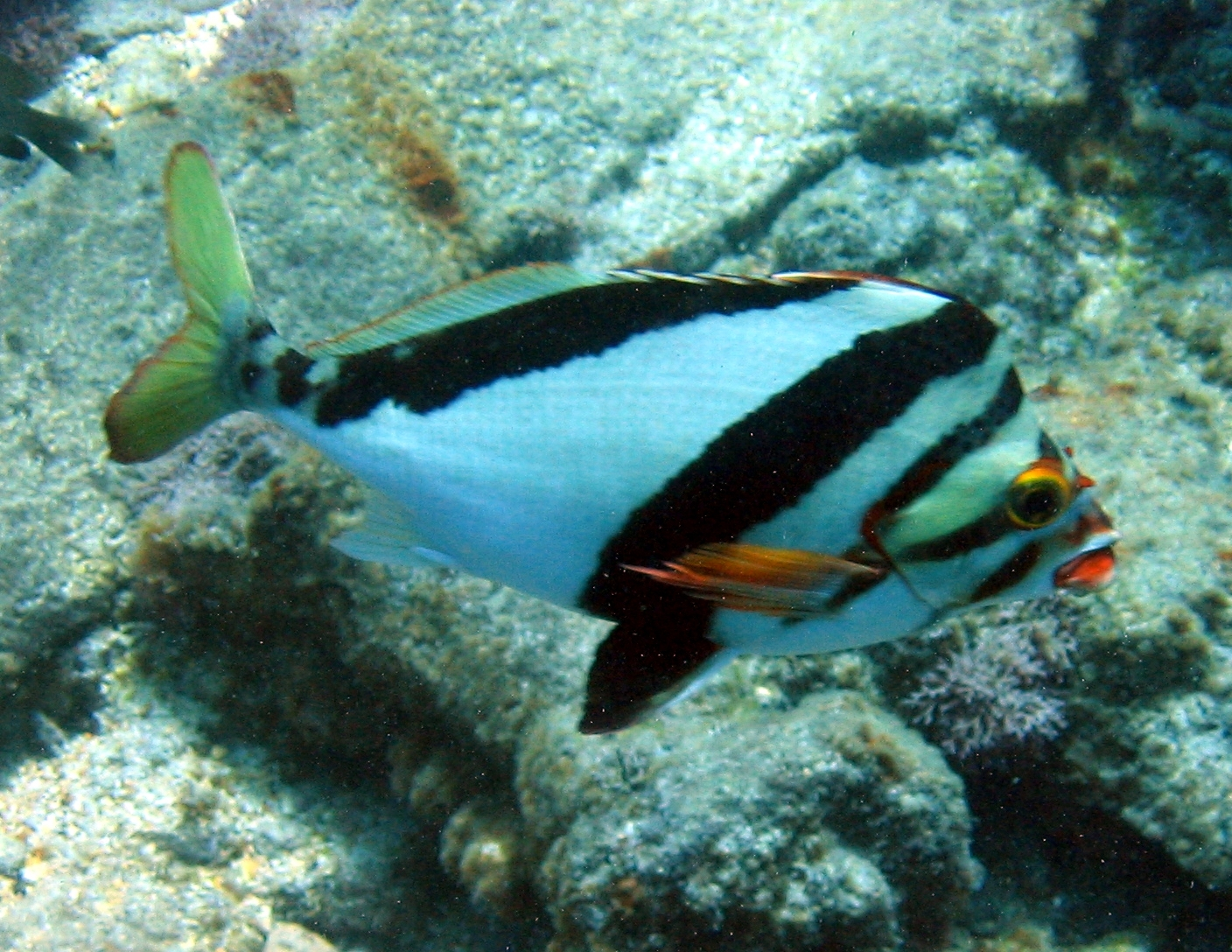 Morwong (Goniistius vittatus) Image ID: reef0655, NOAA's Coral Kingdom Collection Location: Northwest Hawaiian Islands